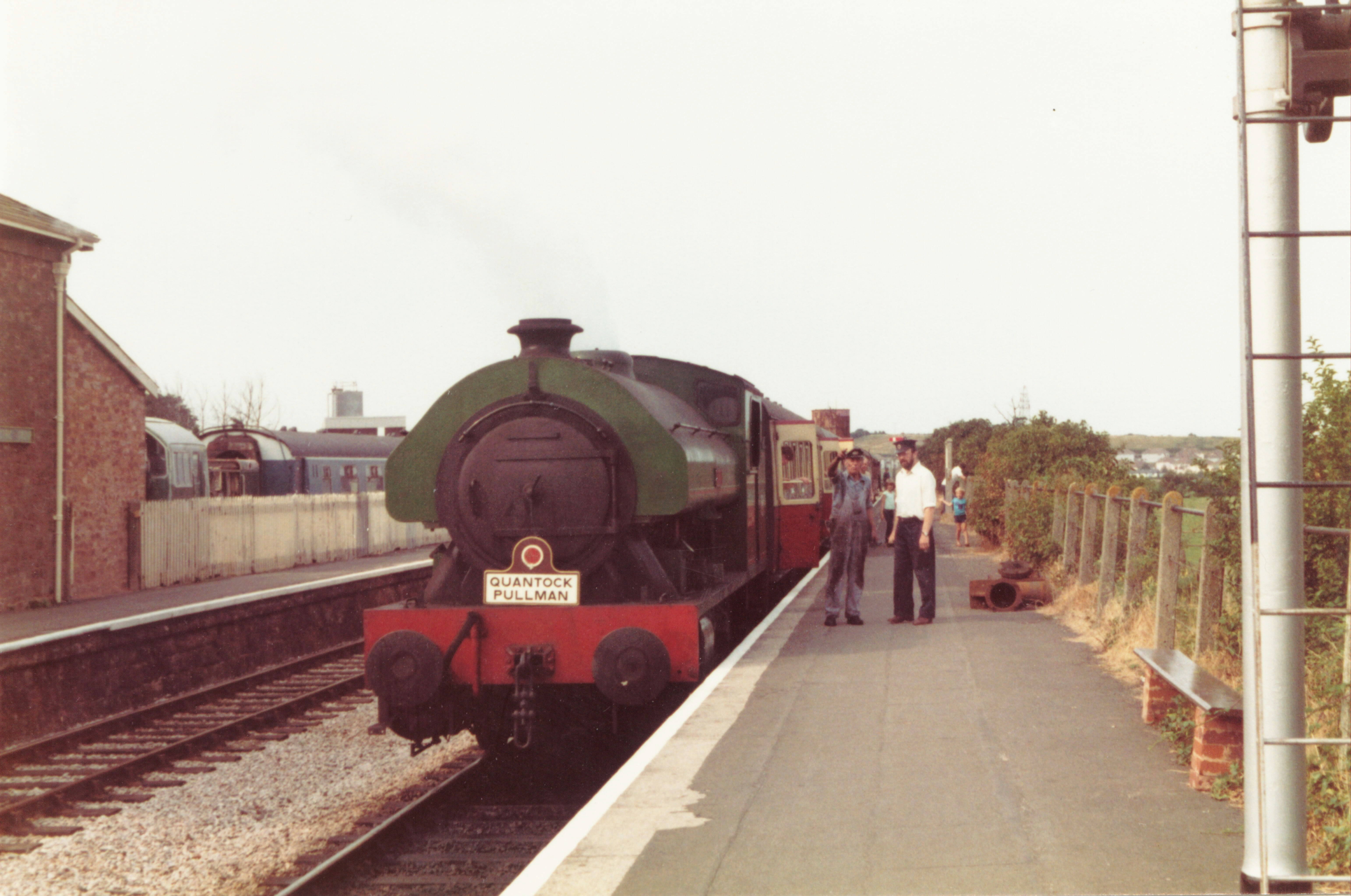 Scan from print, negative long lost!